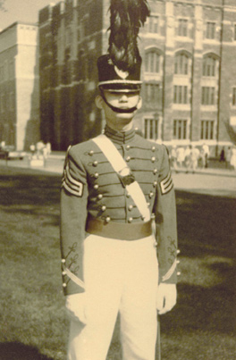 General Eric K. Shinseki Official Portrait From [1]